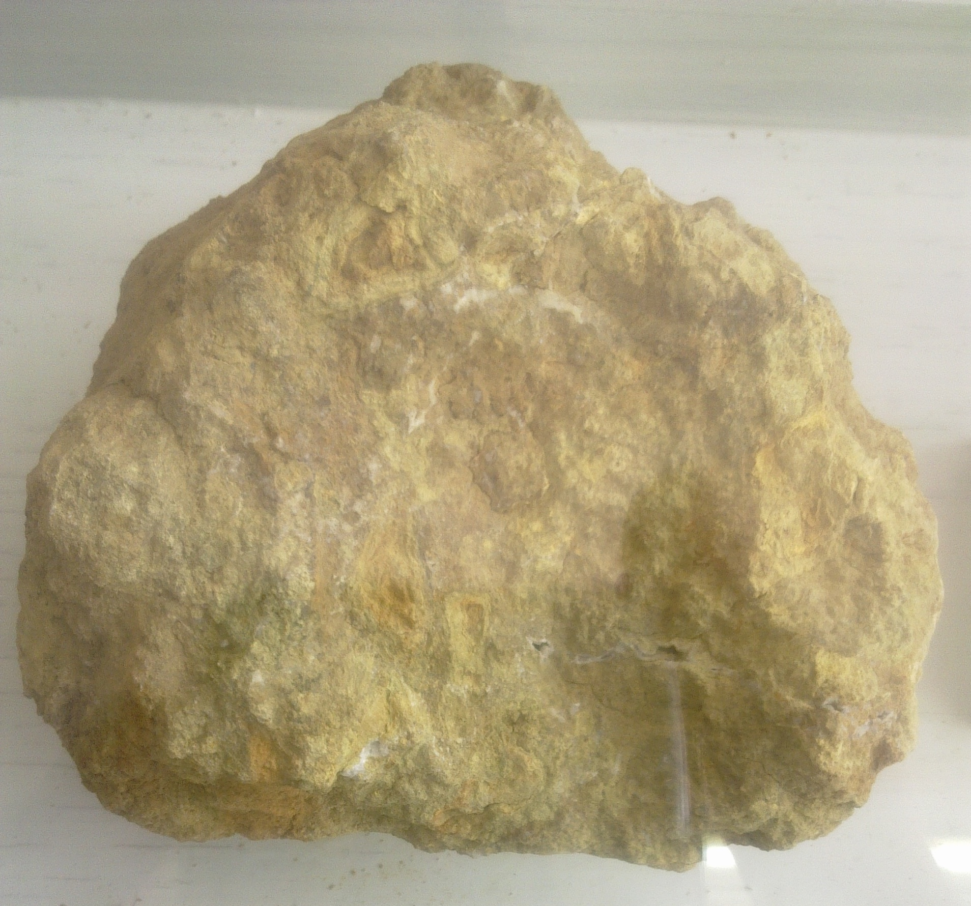 Bindheimite